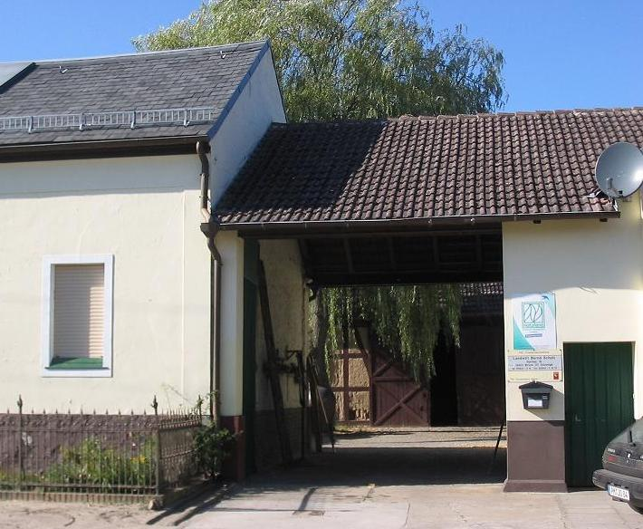 Building Dorfstraße (german for villagestreet ) No. 10 in Gömnigk. The village Gömnigk is a part of the town Brück in the district Potsdam Mittelmark, state Brandenburg, Germany, at the border to the natural preserve Naturpark Hoher Fläming.